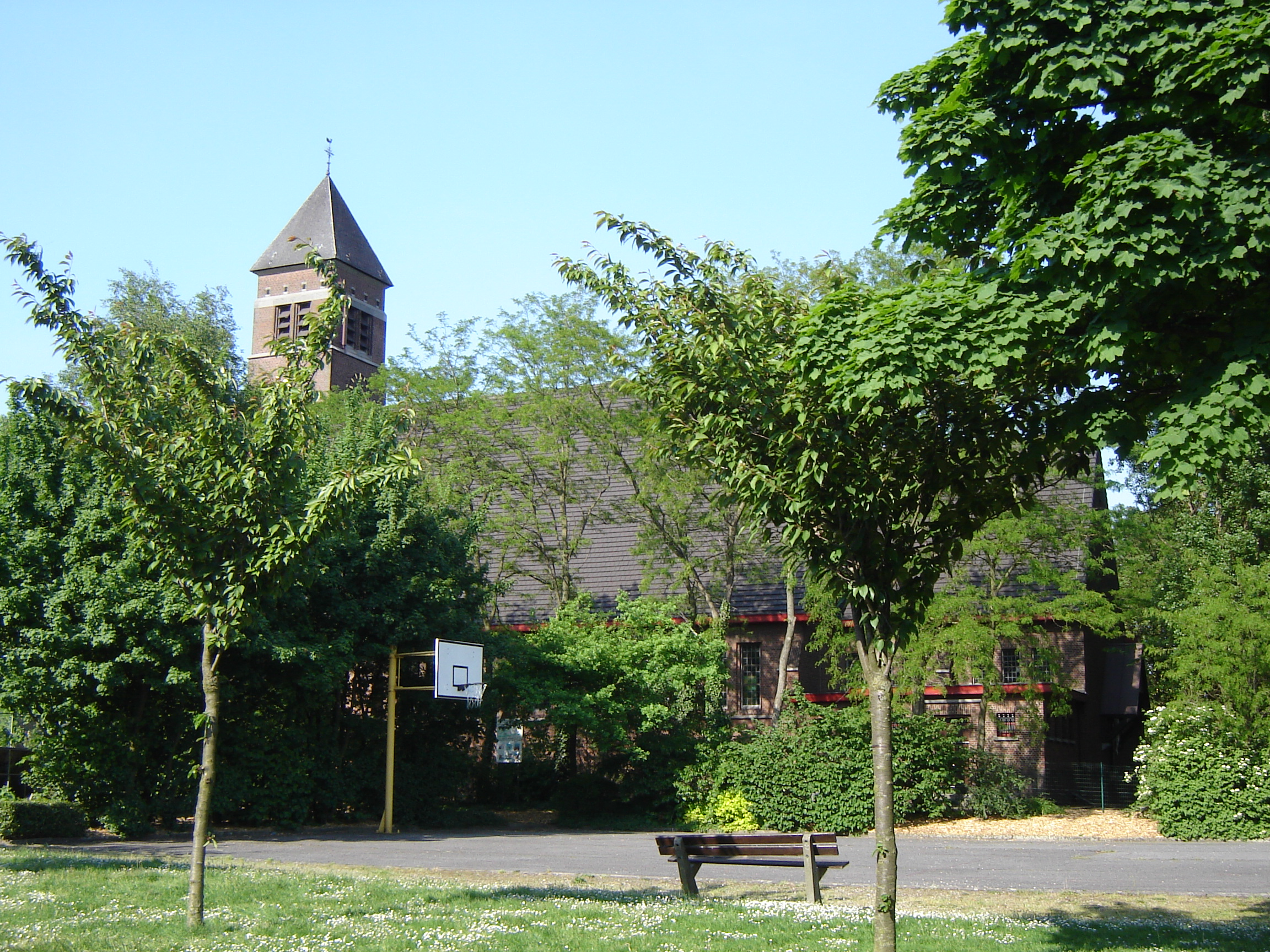 Church of Saint Barbara in Rieme. Rieme, Ertvelde, Evergem, East Flanders, Belgium